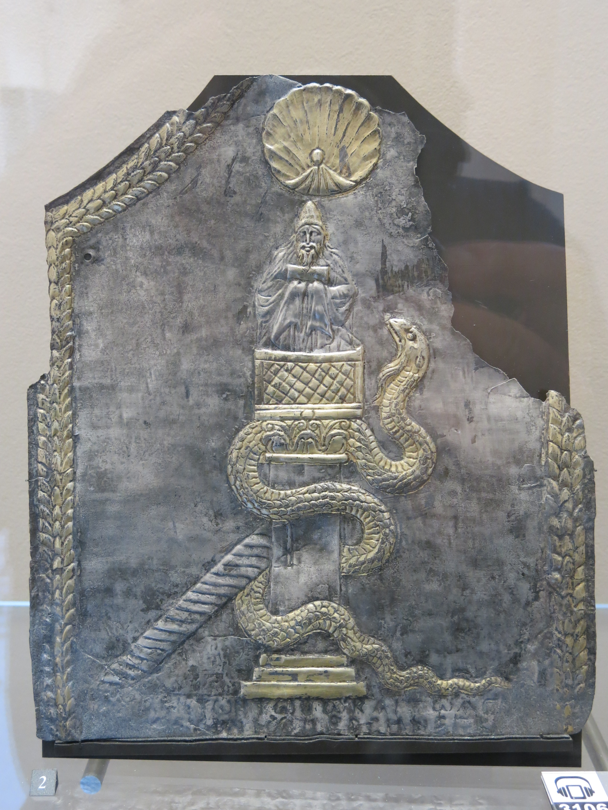 Ex-voto as a plaque of Simeon Stylites. From the treasury of the church of Ma'aret in Noman in Syria. End of 6th century after J.-C. Gilded silver. Height: 26.9 cm; width: 25.5 cm. With a Greek inscription: With thanks to God and Saint-Simeon, I offered . Louvre museum (Paris, France).